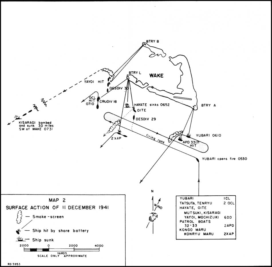 Map of the surface action on 11 December 1941 at Wake Island.